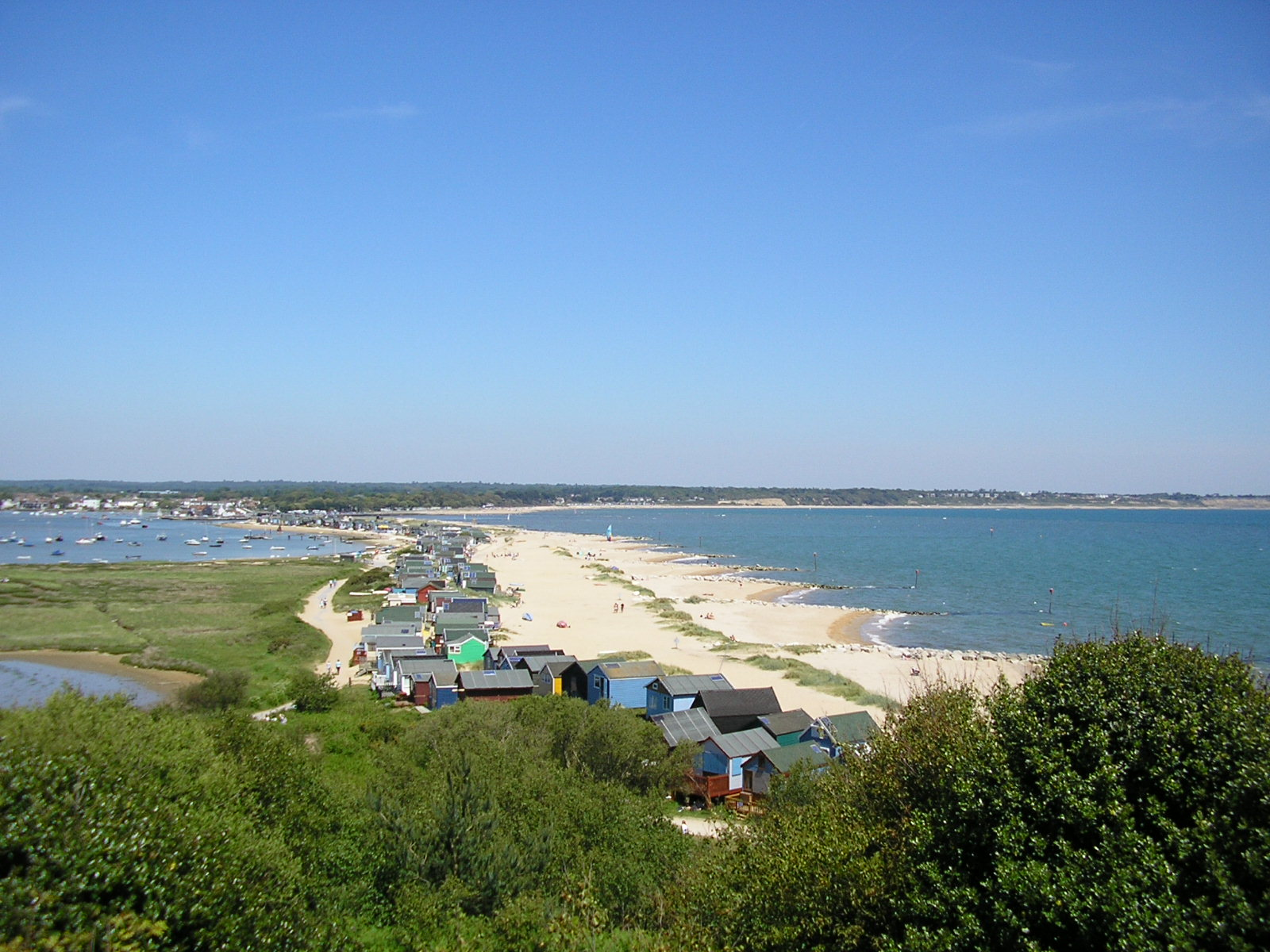 Self made picture of Hengistbury Head. Taken June '06.